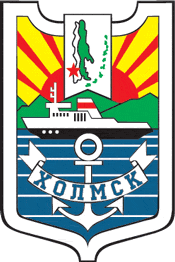 Kholmsk (Sakhalin oblast), coat of arms (1972)